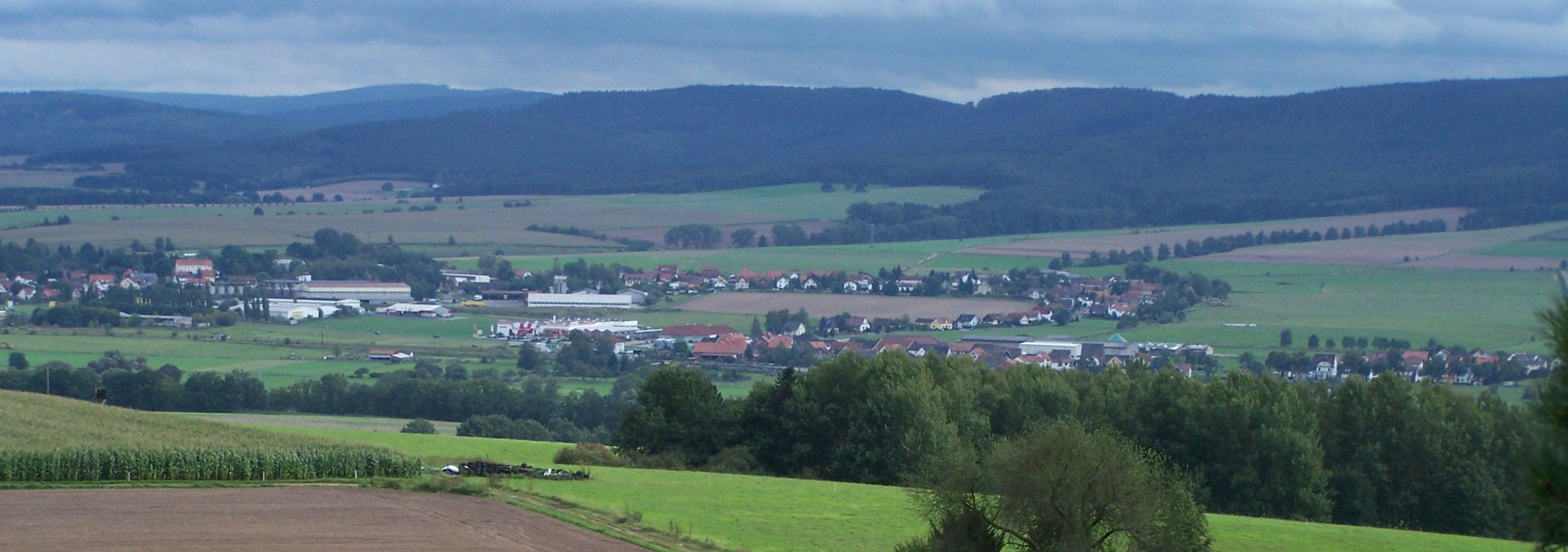 Leimbach and Kaiseroda.